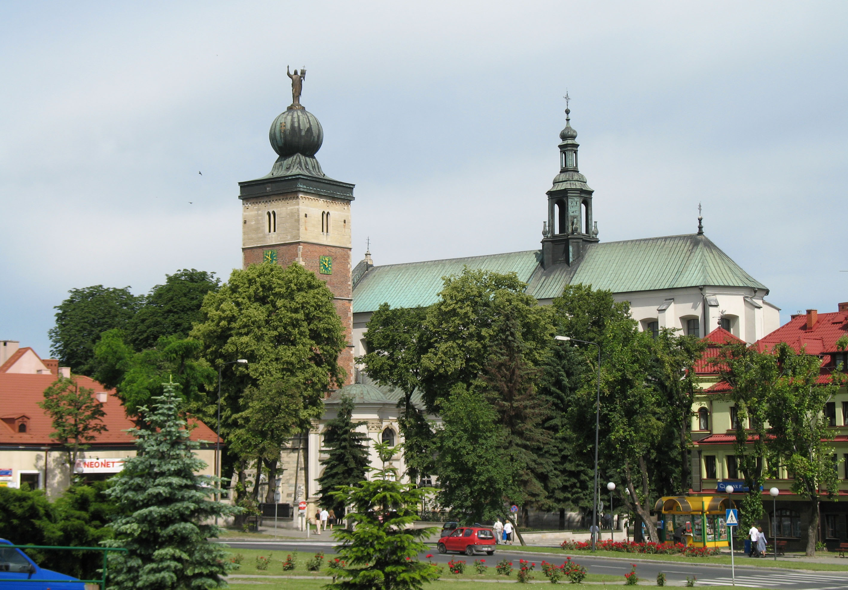 Basilica of the Holy Sepulchre in Miechów, Poland.